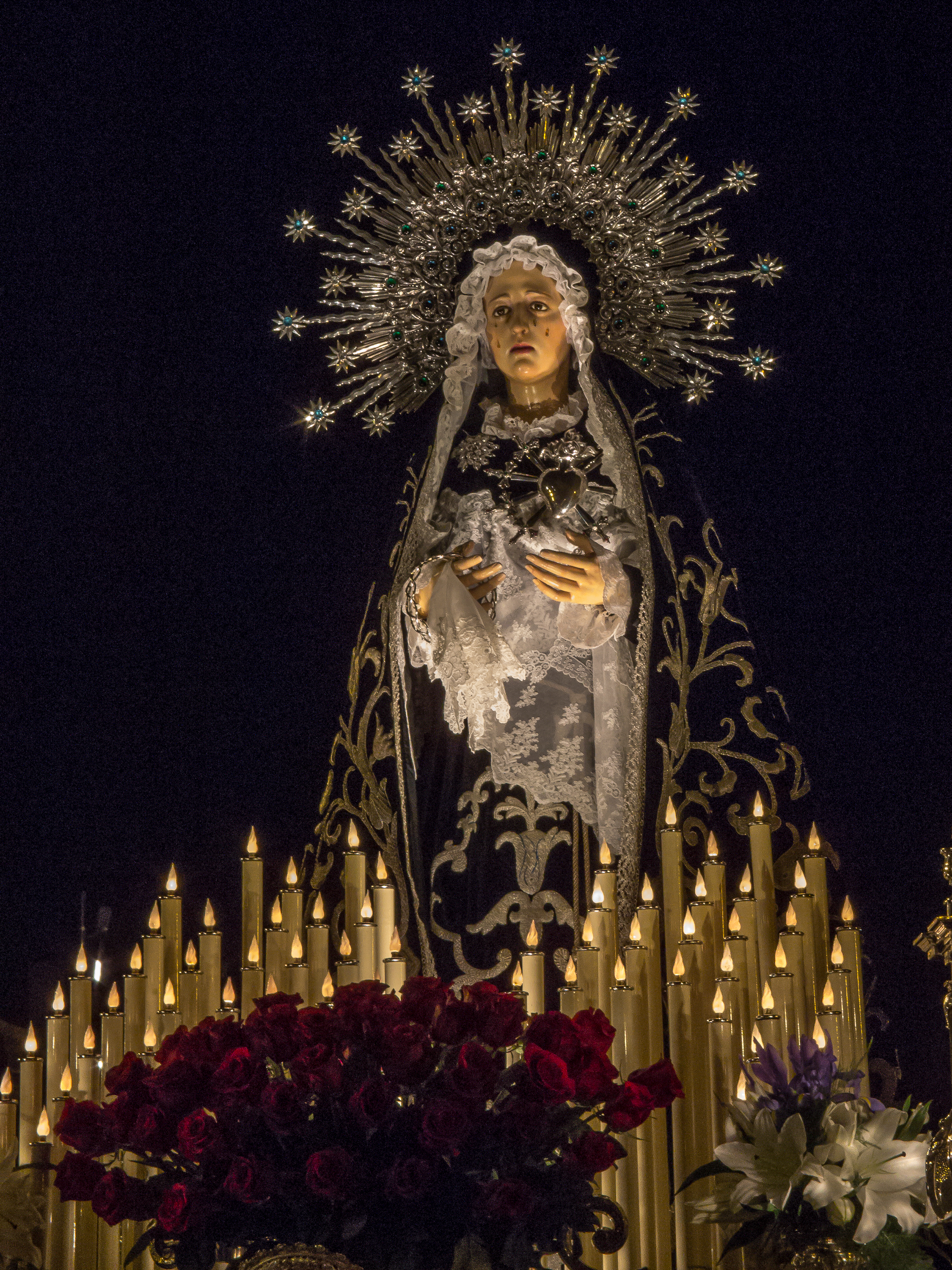 OLYMPUS DIGITAL CAMERA This is a photography of a Folklore festival in Spain (Wikidata id Q9075892).